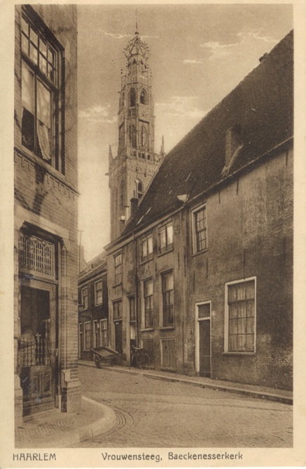 Vrouwensteeg and the Bakenesserkerk in Haarlem